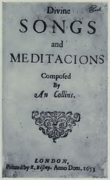 Cover page of original 1653 publication of An Collin's Divine Songs and Meditacions.